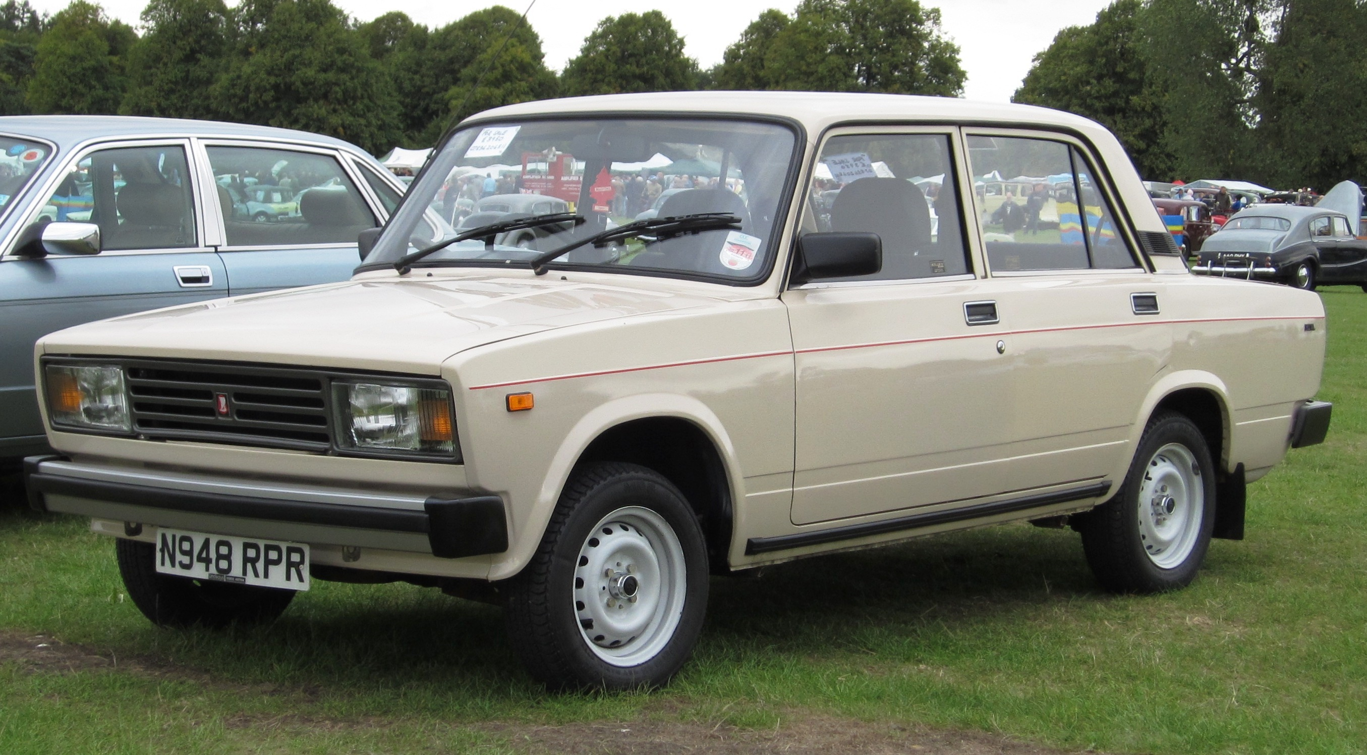 Lada 2105 at classic car show at Knebworth